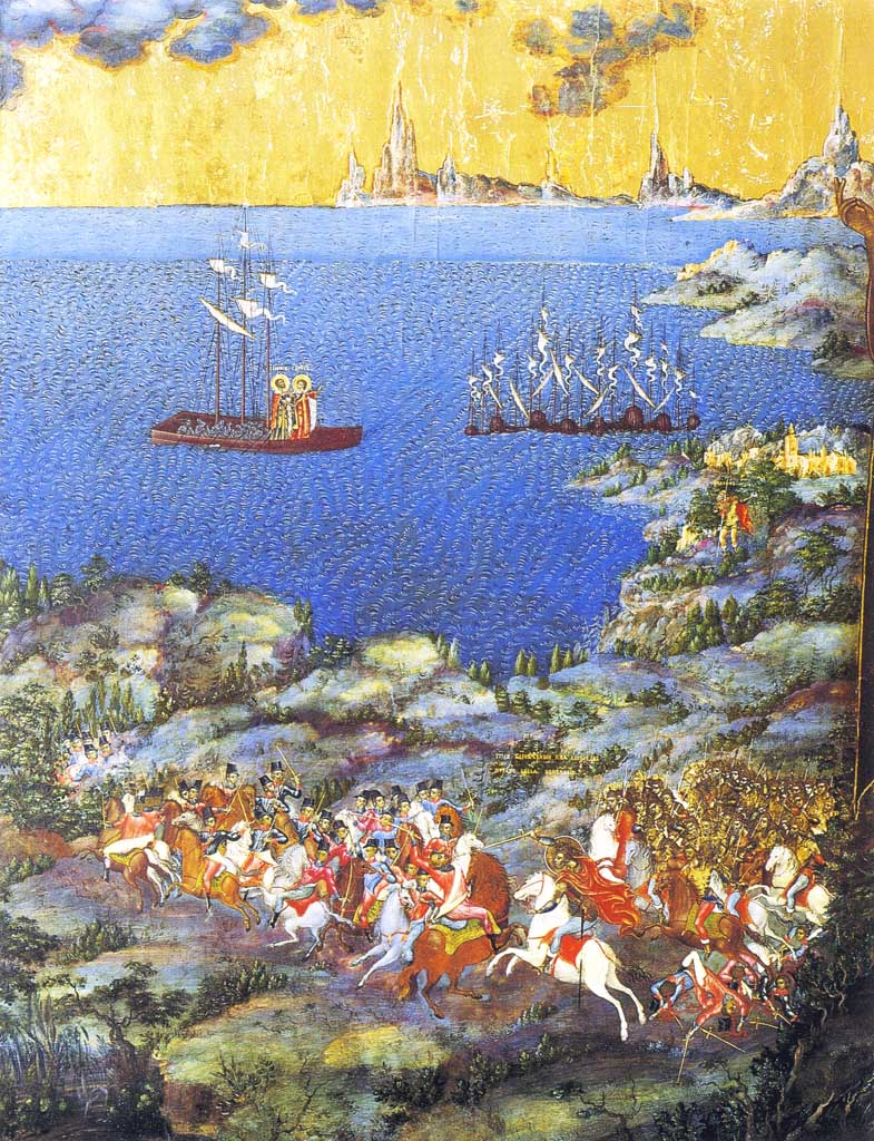 Battle of the Neva, with a legendary scene showing saint princes Boris and Gleb rowing a boat to aid Alexander Nevsky in combat. Fragment from an early 1800s icon depicting St. Alexander Nevsky with scenes from his life.